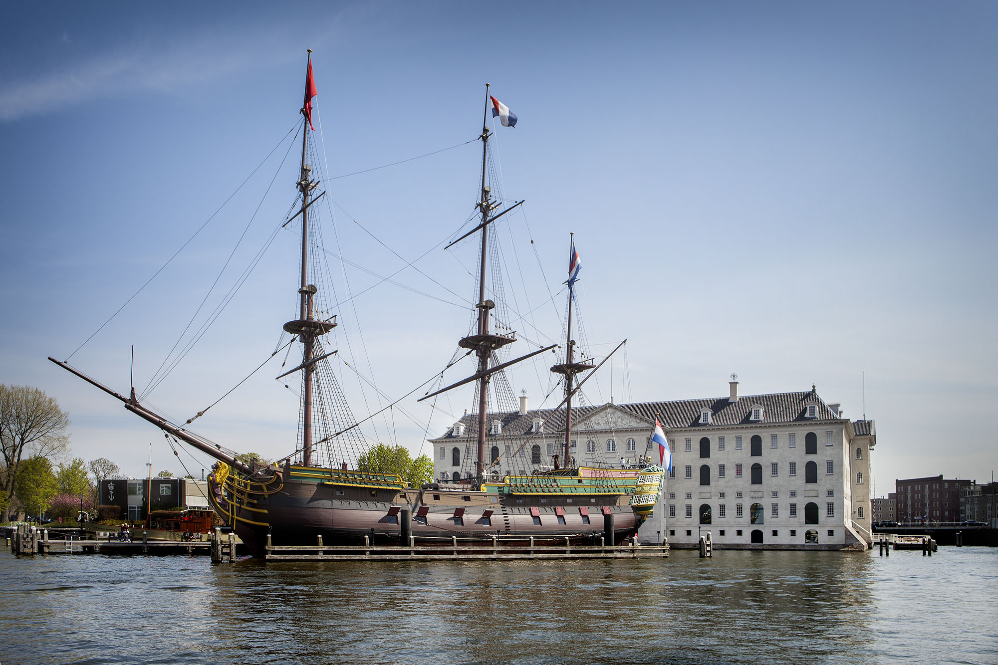 Replica ship of the Amsterdam Location: Het Scheepvaartmuseum, Amsterdam, Holland